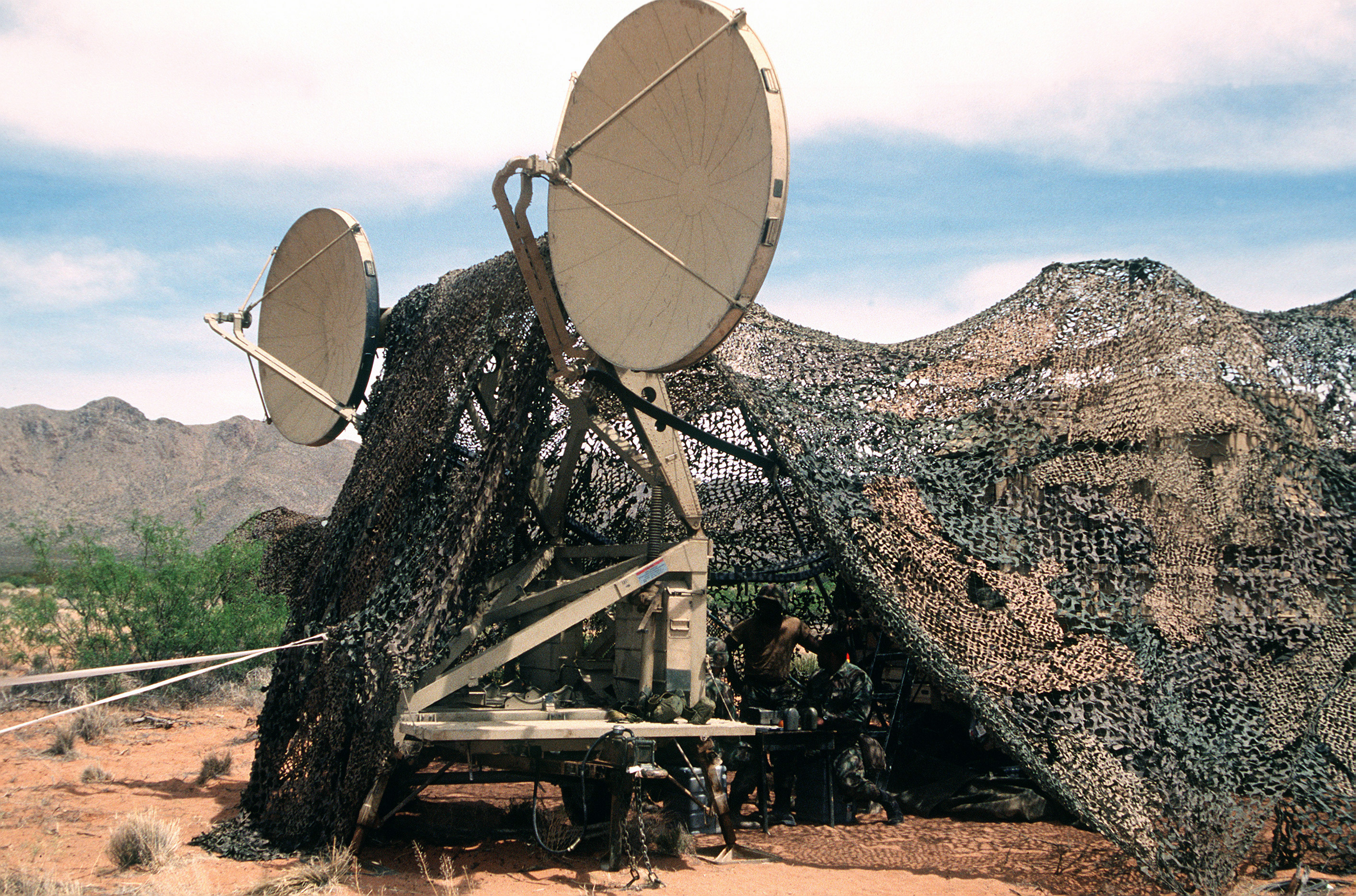 A close-up view of dual 9 1/2' Tropo scatter microwave dishes. They are the quick reaction antenna for the TRC-170 Tropo Scatter Microwave System that sends data to the Air Operations Center and Joint Forces Air Command. Location: FORT BLISS, TEXAS (TX), UNITED STATES OF AMERICA (USA)